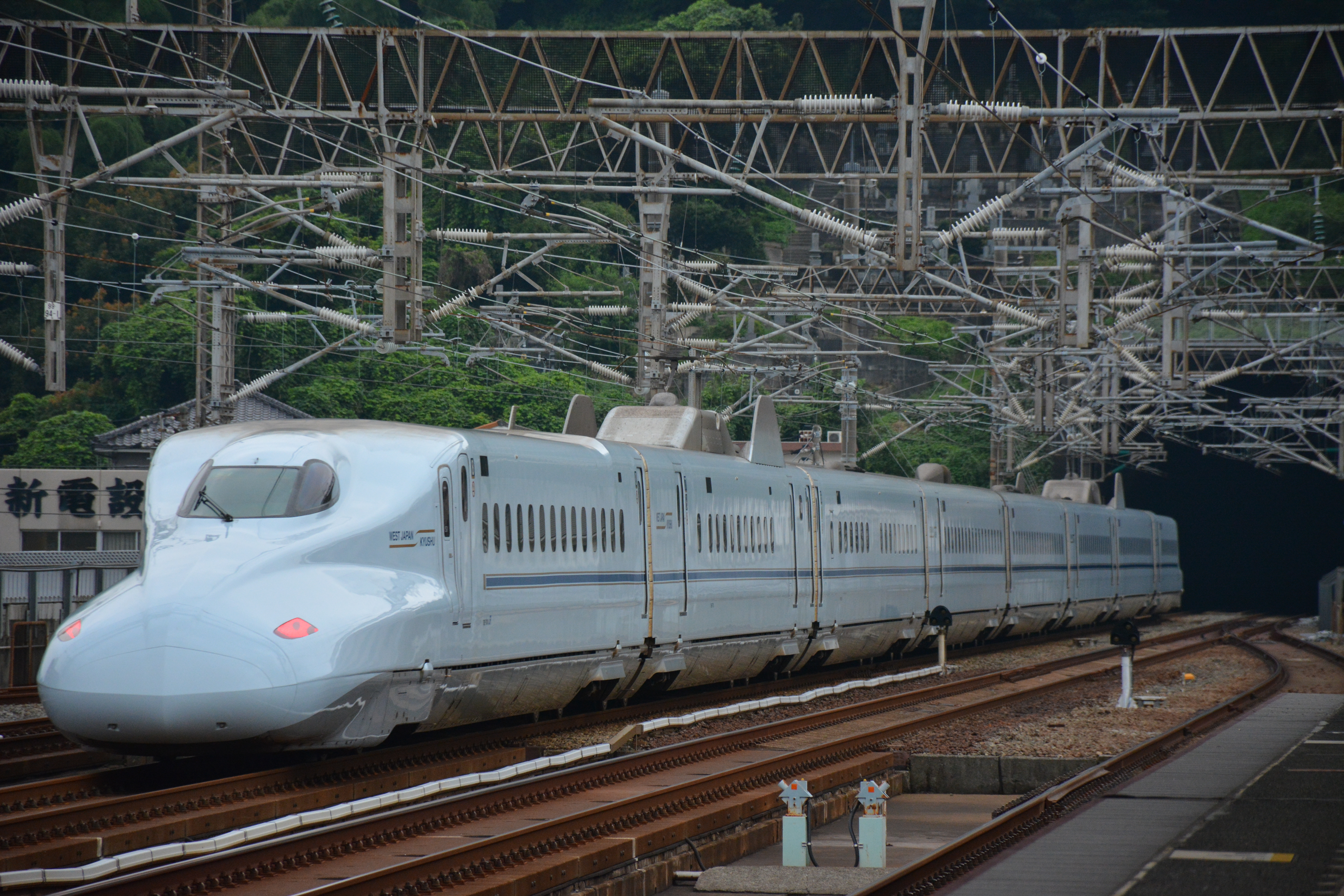 JR West N700-7000 series shinkansen set S1 passing through Shin-Shimonoseki Station on the Sakura 541 service